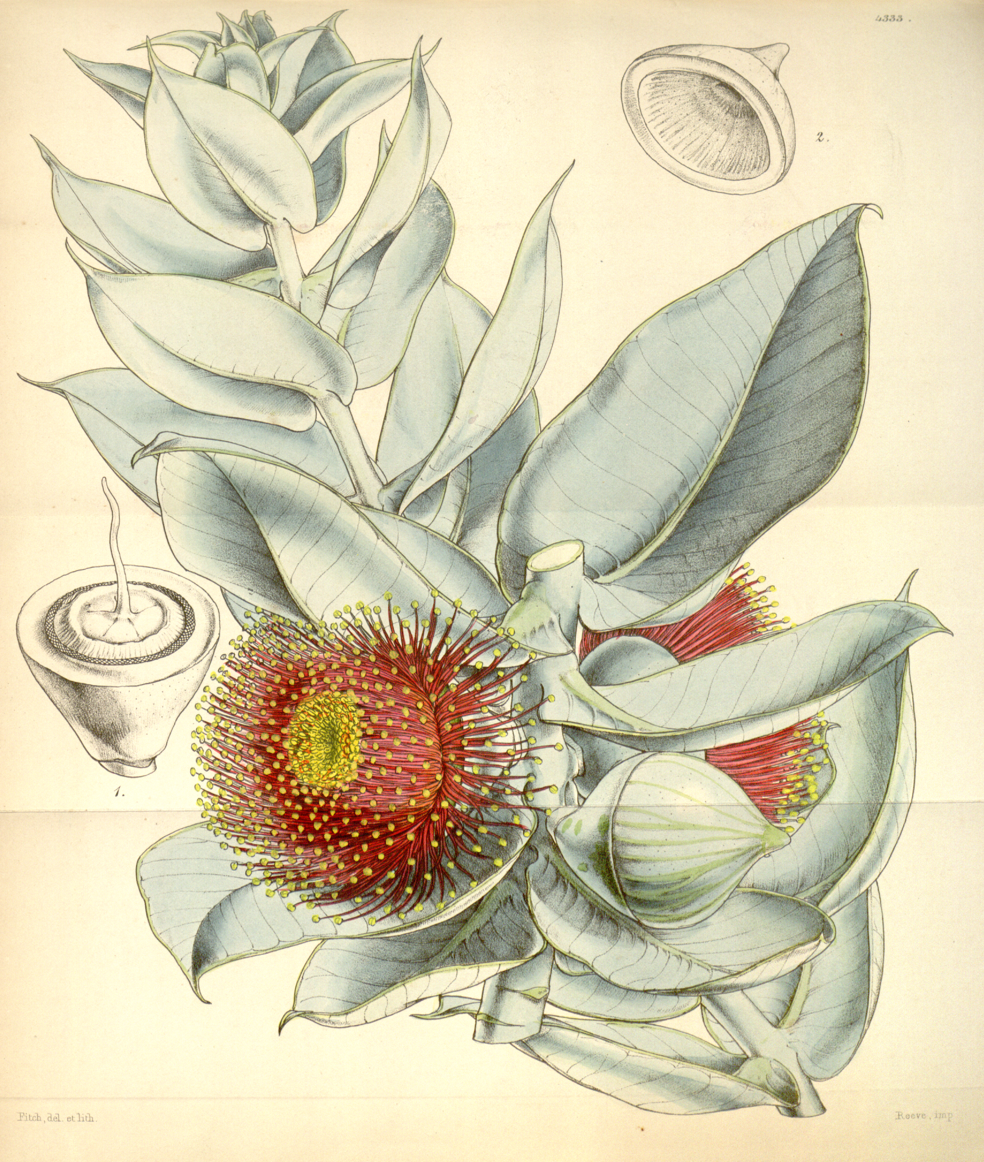 This is a plate from Curtis's Botanical Magazine, Volume 73. Title: Eucalyptus macrocarpa. Large-fruited Eucalyptus, or Gum-Tree. It depicts the species Eucalyptus macrocarpa.